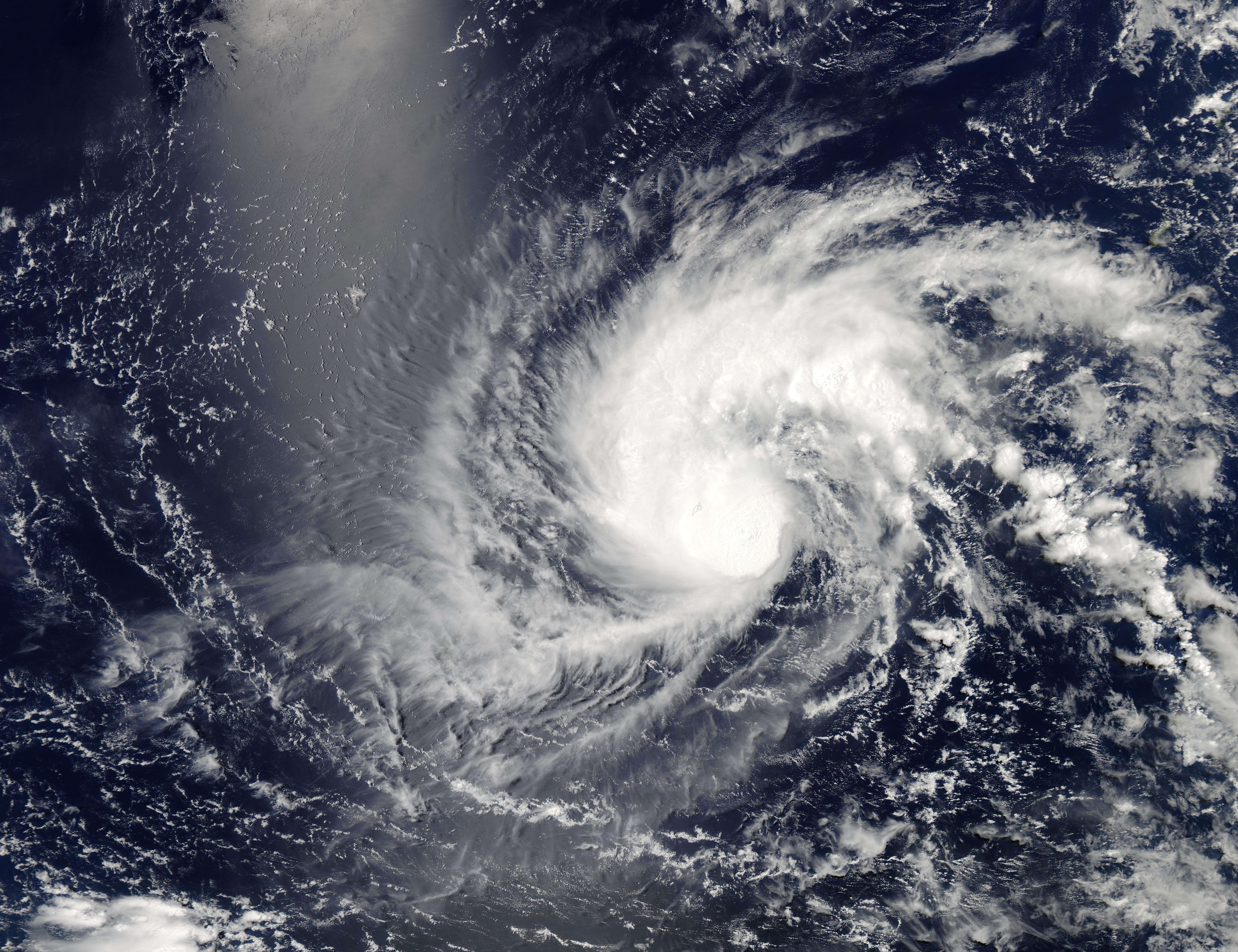 Tropical Storm Noul in the Western Pacific Ocean.